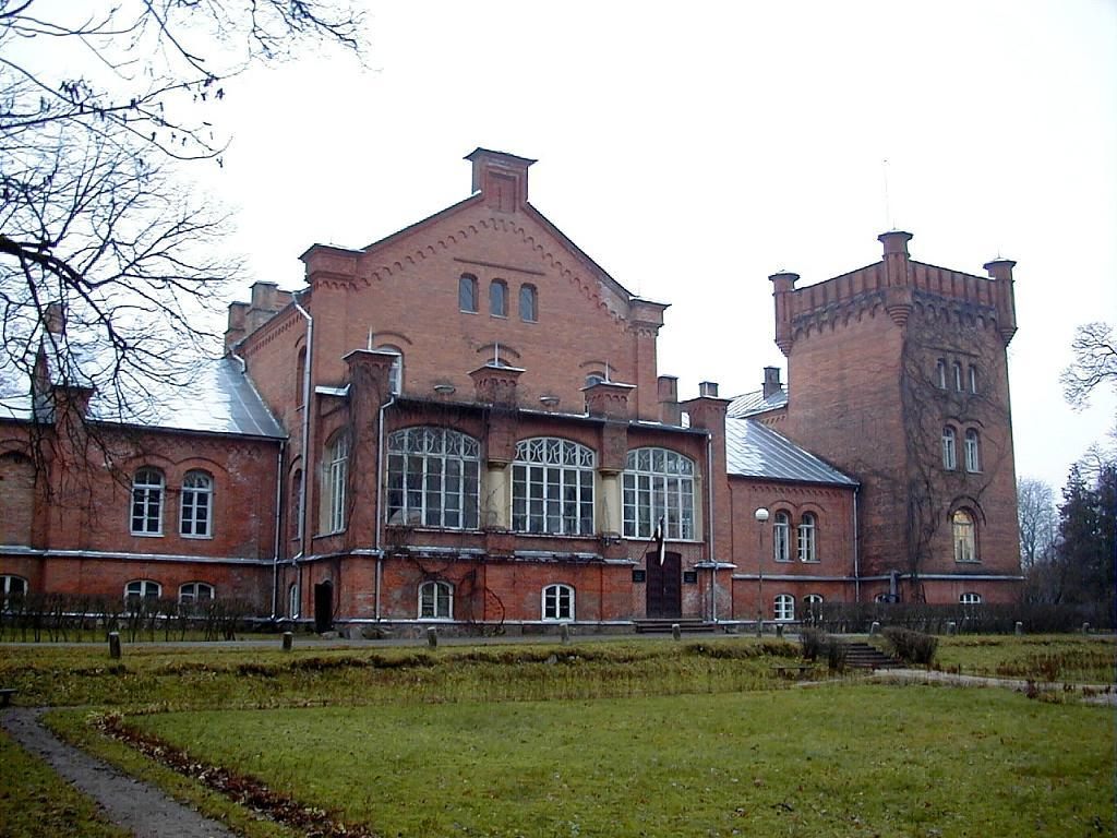 Puikule Manor